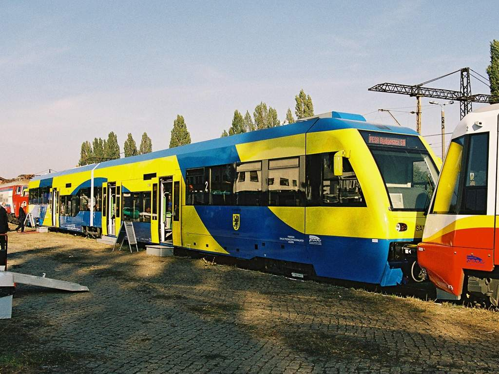 SA131-001 of Urząd Marszałkowski Województwa Pomorskiego; TRAKO trade fair, Gdańsk, Poland